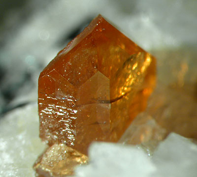 Bastnäsite-(Ce) Locality: Zagi Mountain (Zegi Mountain), Mulla Ghori, Khyber Agency, Federally Administered Tribal Areas (FATA), Pakistan (Locality at ) Size: 5.0 x 4.2 x 2.8 cm. The famous Trimouns Quarry in France was probably the best known locality for Bastnasite-(Ce) in the world until Zagi Mountain came along. These fairly new specimens have redefined the species for size and quality of crystals. This miniature specimen features a small (2.5 mm) very gemmy, rich honey-orange color hexagonal crystal of Bastnasite-(Ce) with very sharp faces and good luster. It seems as though this locality has produced less and less of these outstanding specimens over the last few years.